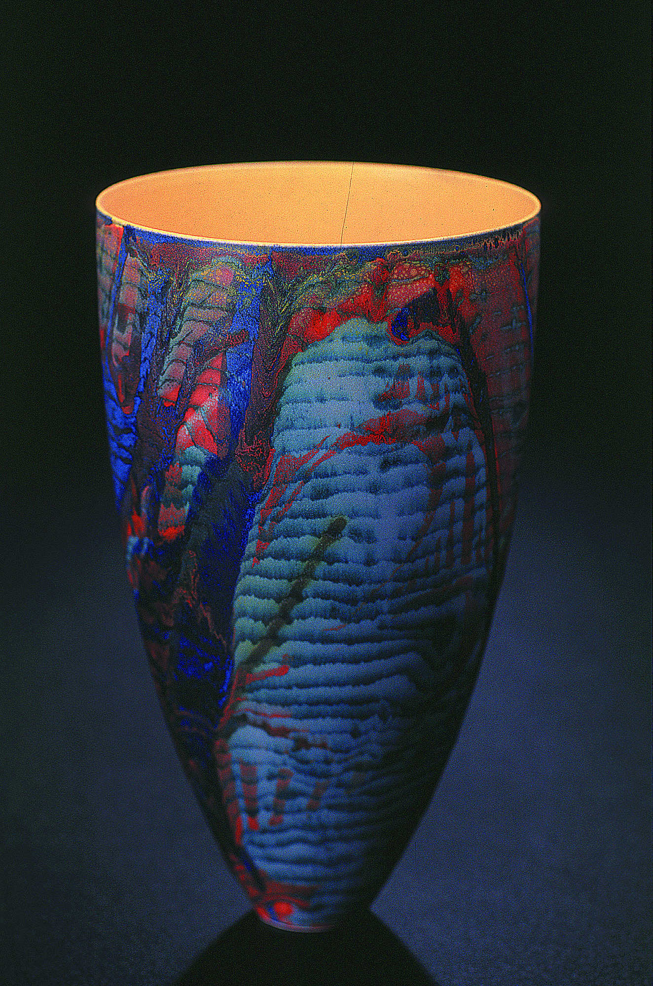 Blue Ceramic Vessel by Pippin Drysdale